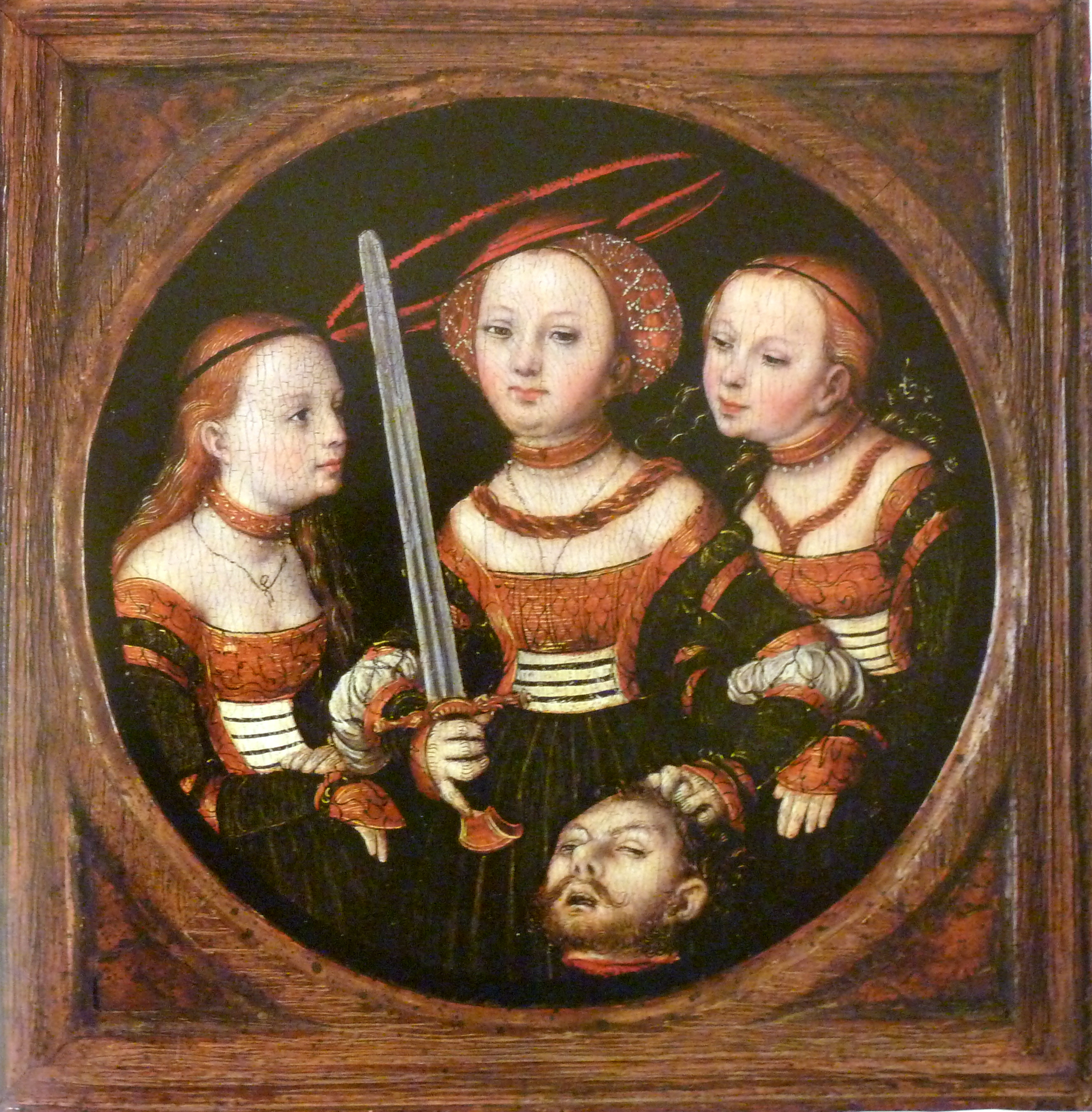 Judith with the head of Holofernes and two female companions